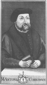 This masterpiece in oil is showing the lutheranian reformator of the land Calenberg in Lower Saxonia, Anton Corvinus, written on the oil painting in the year: "1546"